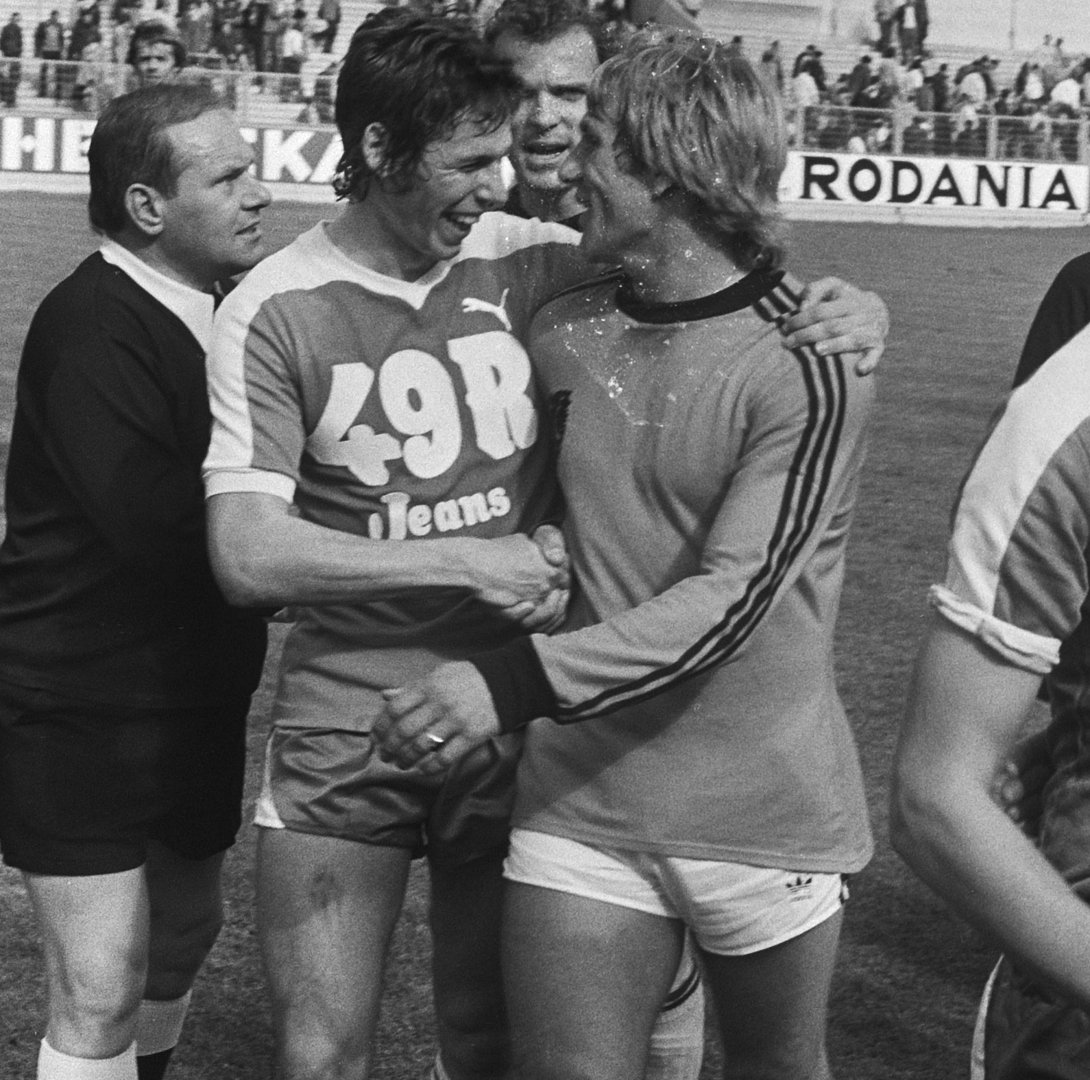 René Vandereycken (left) and Johan Boskamp (right) after a friendly game between Club Brugge and Netherlands national football team.